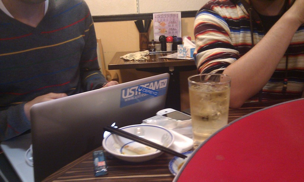 Taken with picplz at 餃子屋壱番 in Chiyoda Ward, Japan.